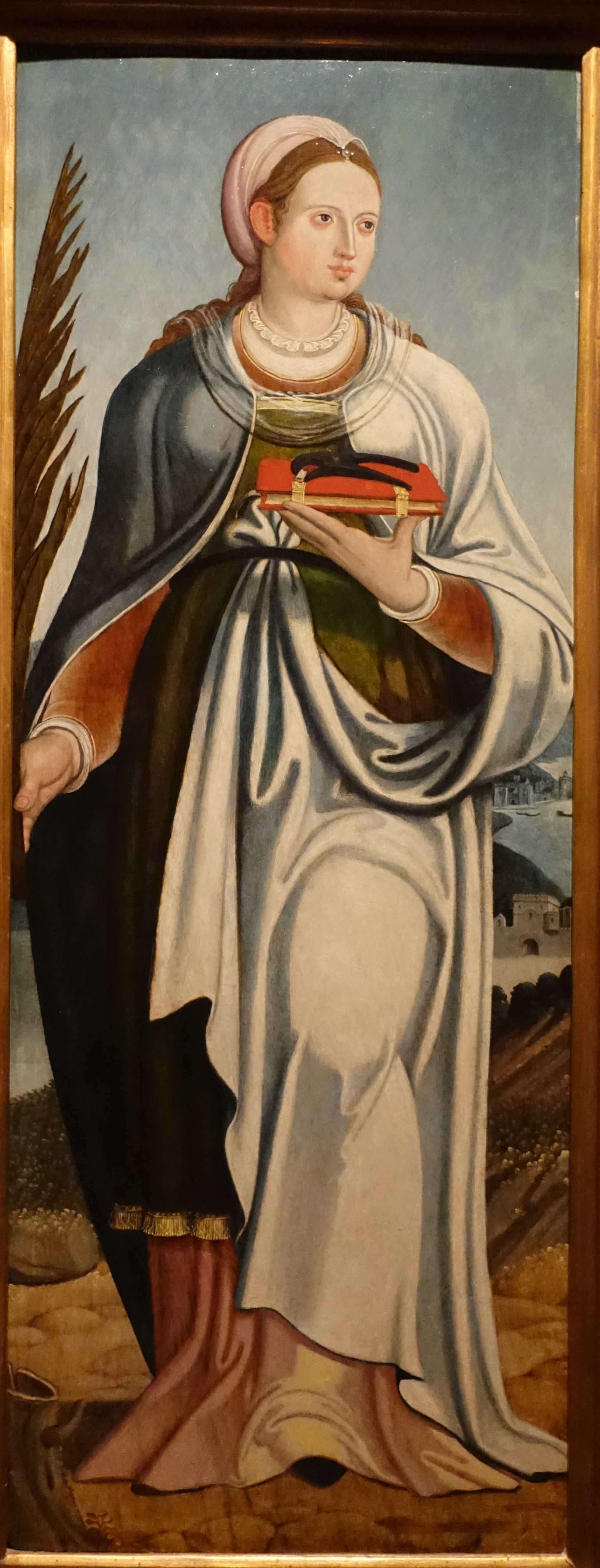 Collections of the Museu de Alberto Sampaio, Portugal